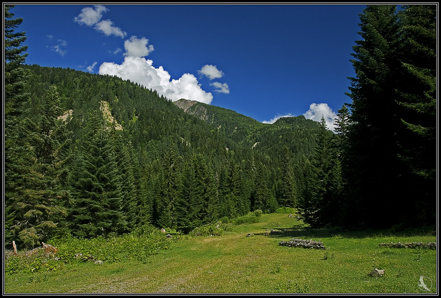 Shovi, Racha region, Georgia